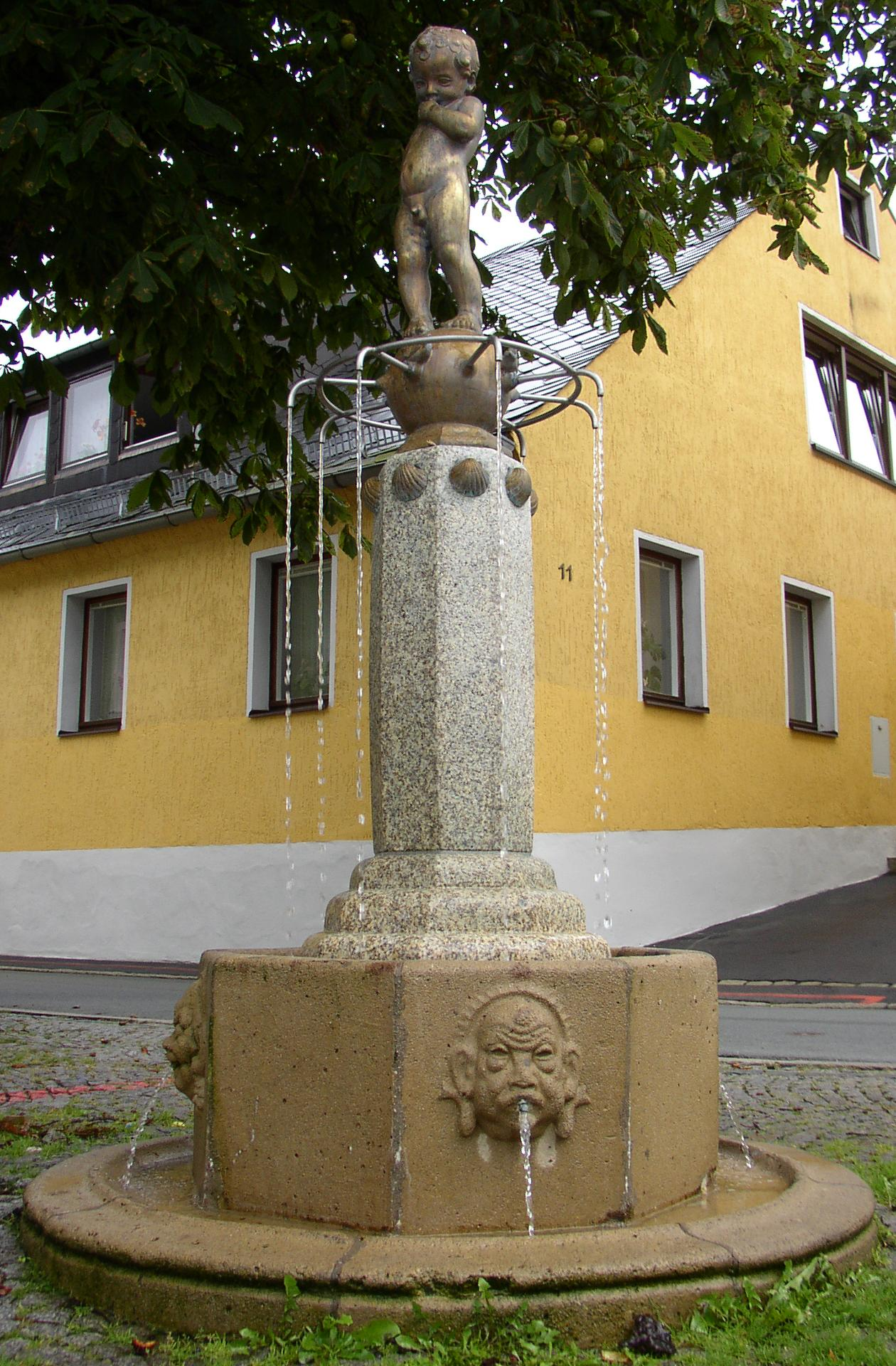 Fountain in Selb in Bavaria, Germany